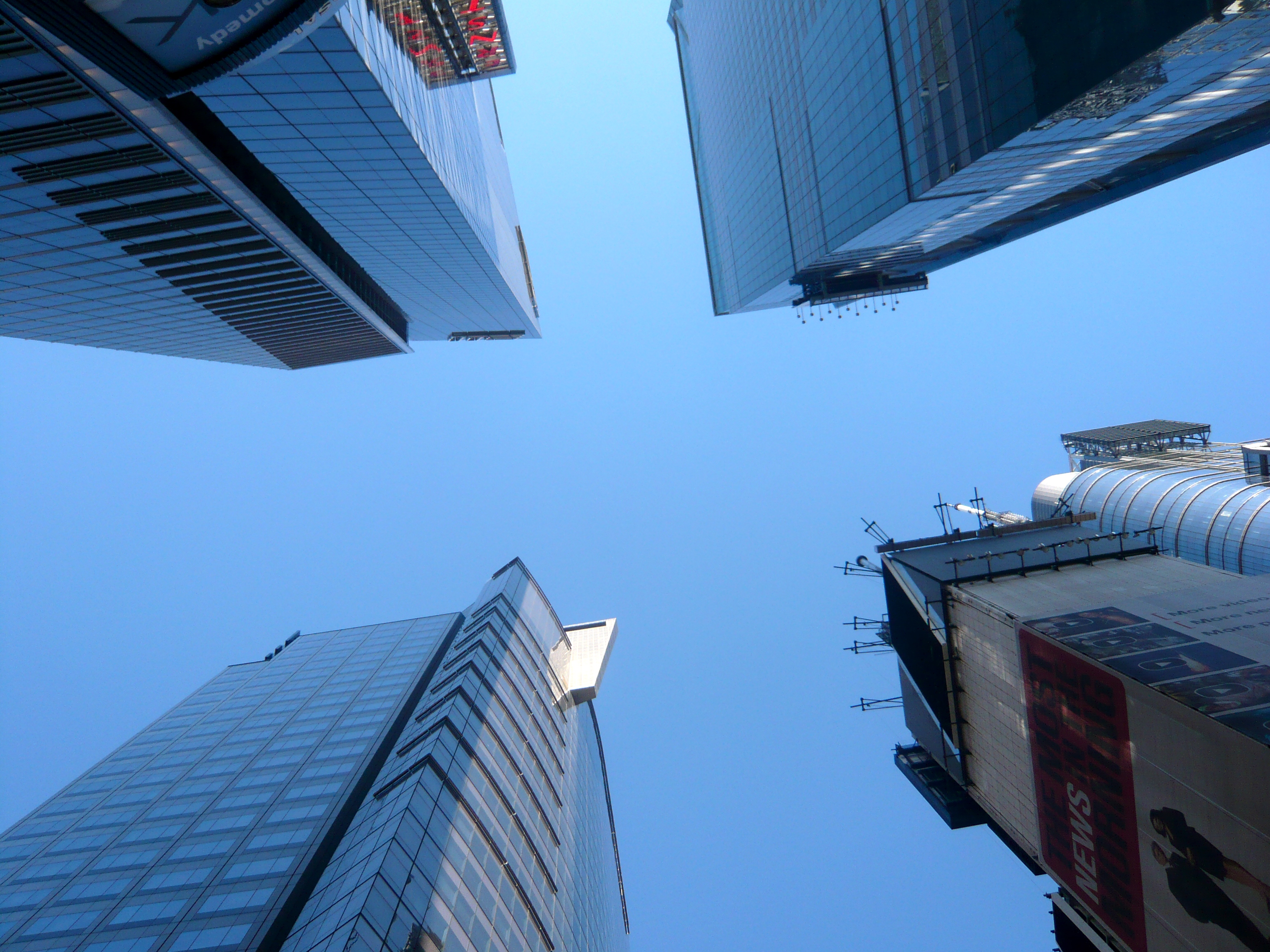 New York, Time Square